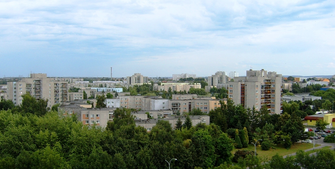 Zamoyskiego housing estate in Zamość